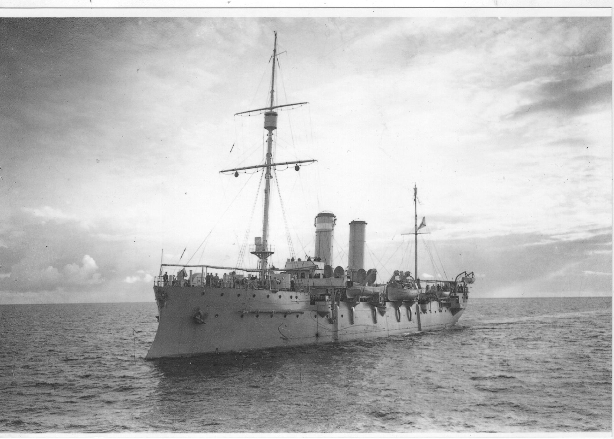 Imperial Russian minelaiyer Amur.